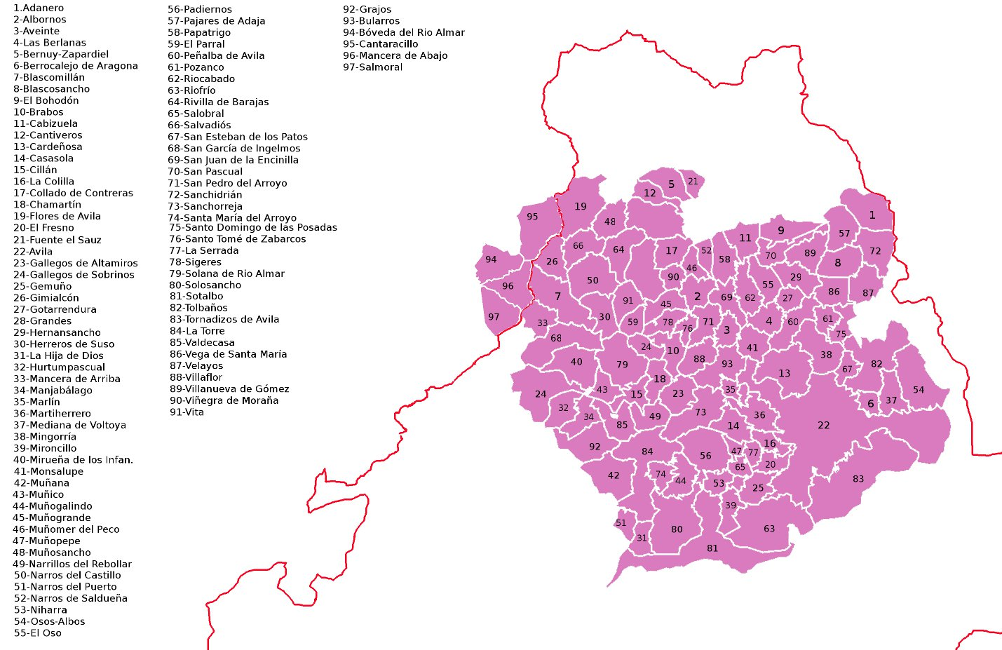 municipios que componen el Arciprestazgo de Avila